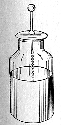 Drawing of a Leyden jar from a 1913 physics book. A Leyden jar is an antique piece of physics apparatus that can store electric charge; it was the first form of capacitor. It consists of a glass jar coated on the inside and outside with metal foil. The foils stop well short of the mouth of the jar so that the charge can't arc between the foils through the mouth. A brass rod electrode pierces the wooden stopper and extends into the jar, and from it hangs a metal chain which makes contact with the inner foil. The jar is charged by grounding the outside foil and applying electricity from an electrostatic machine to the electrode.